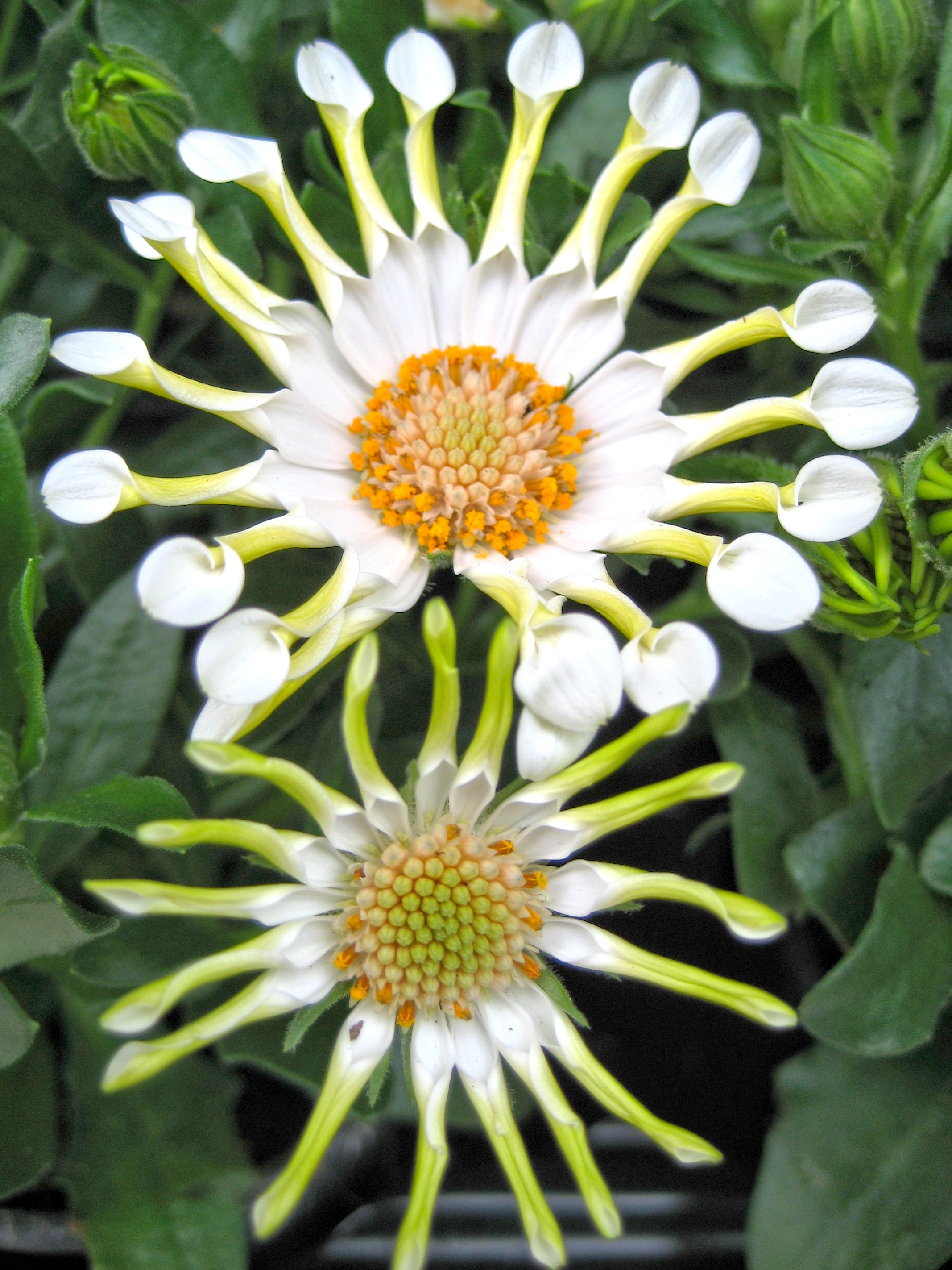 Osteospermum ecklonis